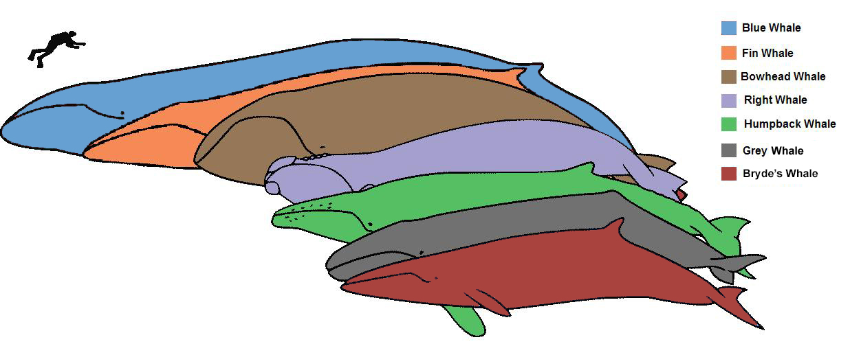 Size comparison of living baleen whale species.